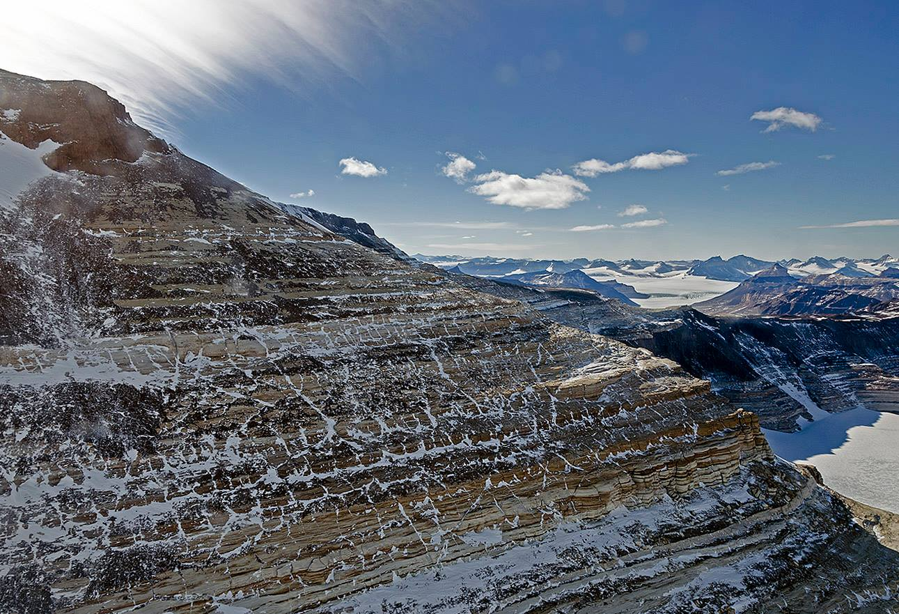 This image of the Transantarctic Mountains was taken from the NASA P-3 airborne laboratory on Nov. 27, 2013, near the end of the 2013 IceBridge Antarctic campaign. NASA’s Operation IceBridge images Earth's polar ice in unprecedented detail to better understand processes that connect the polar regions with the global climate system. IceBridge utilizes a highly specialized fleet of research aircraft and the most sophisticated suite of innovative science instruments ever assembled to characterize annual changes in thickness of sea ice, glaciers, and ice sheets. In addition, IceBridge collects critical data used to predict the response of earth’s polar ice to climate change and resulting sea-level rise. IceBridge also helps bridge the gap in polar observations between NASA's ICESat satellite missions.